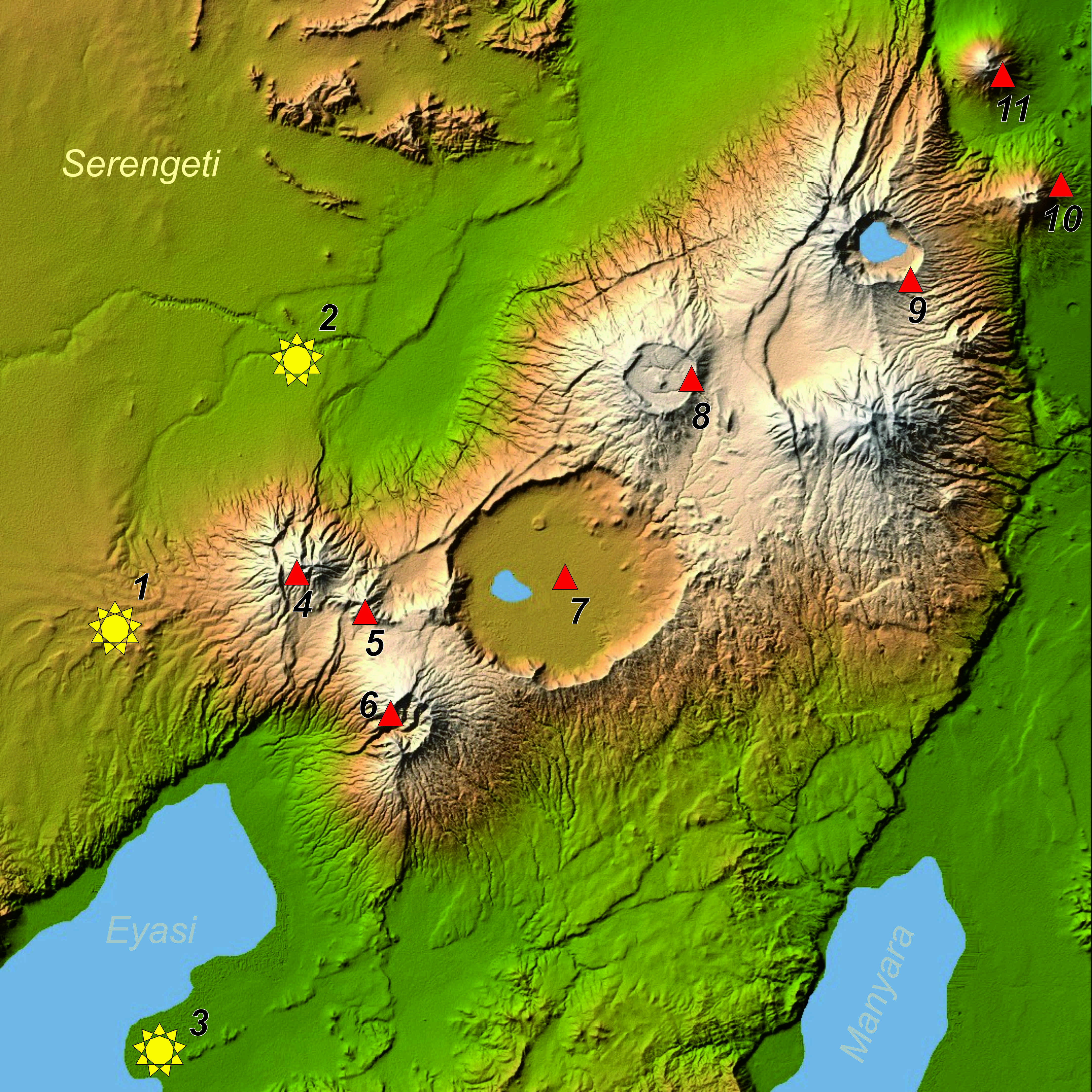 Tanzania paleoanthropological sites and volcanoes near Ngorongoro. Sites: 1 - Laetoli (Australopithecus sp., Paranthropus aethiopicus) 2 - Olduvai (Paranthropus boisei, Homo habilis) 3 - Eyasi (Homo sapiens) Volcanoes: 4 - Sadiman 5 - Lemagrut 6 - Oldeani 7 - Ngorongoro 8 - Olmoti 9 - Embagai 10 - Kerimasi 11 - Ol Doinyo Lengai